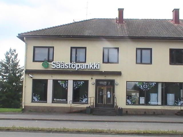 The office of Huittisten Säästöpankki at Säkylä, Finland in June 2013.